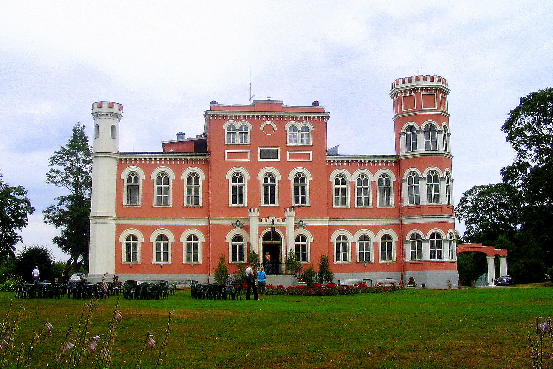 Bīriņi Palace